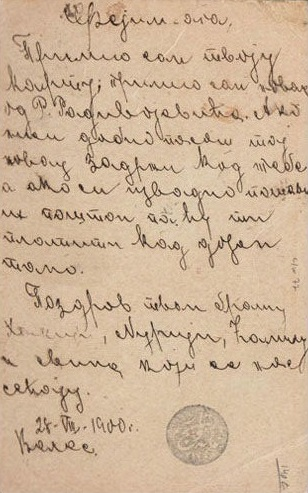 Serbian letter from Veles mentioning Rade Radivoevich